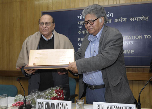 This photograph is my recent fellowship Award given by Sahitya Akademi